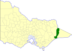 Location of the Shire of Tambo within Victoria.